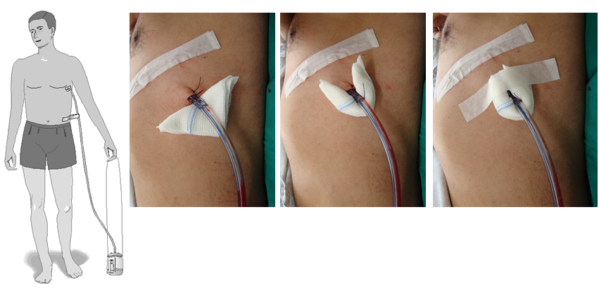 Thoracic drain dressing